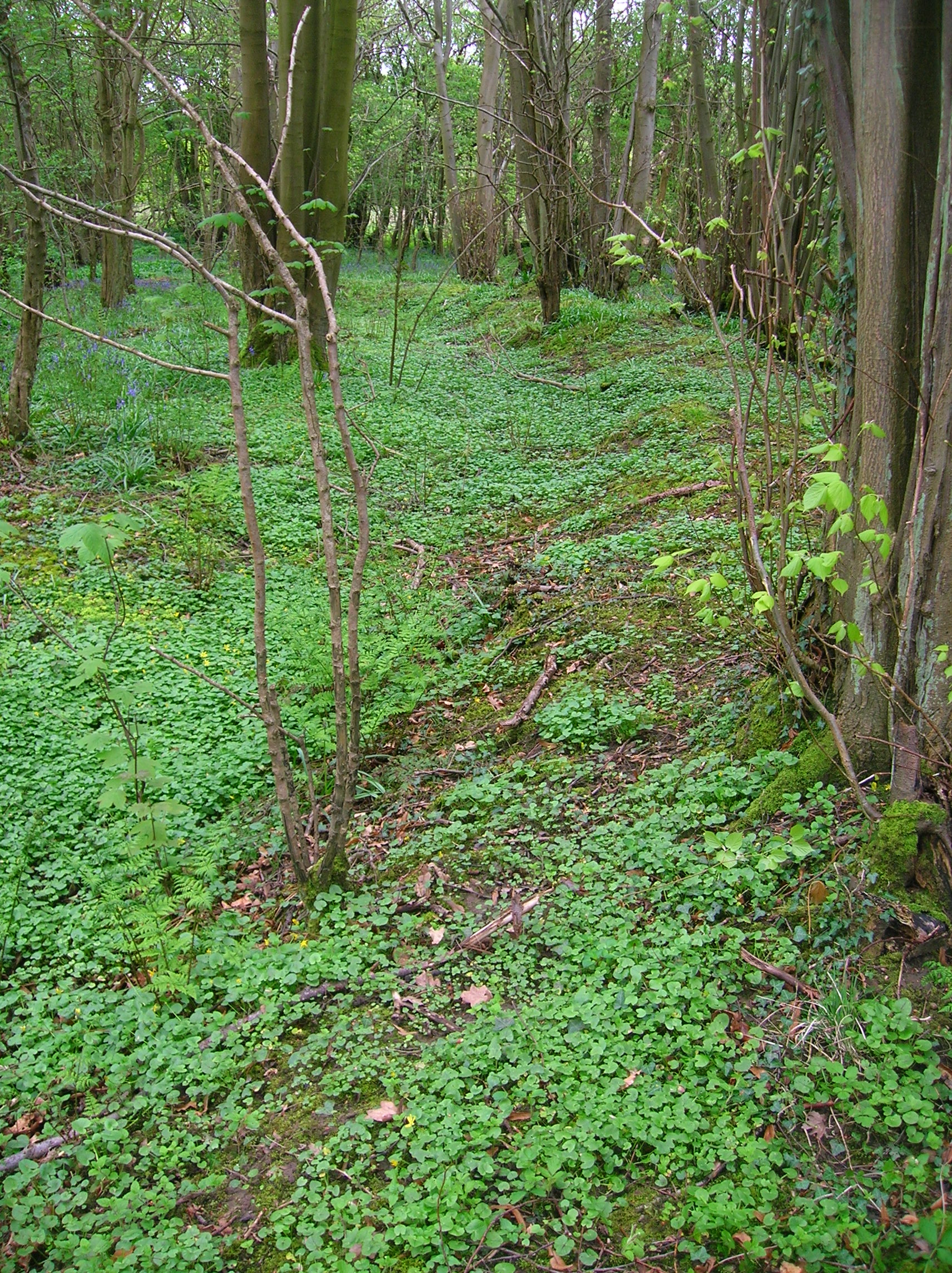 The ditch and earth dyke in Chapelholm Woods near Fergushill in North Ayrshire, Scotland.